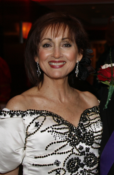 Robin Strasser at the VIP Cocktail reception prior to the 22nd Annual "Night of A Thousand Gowns," March 2008.